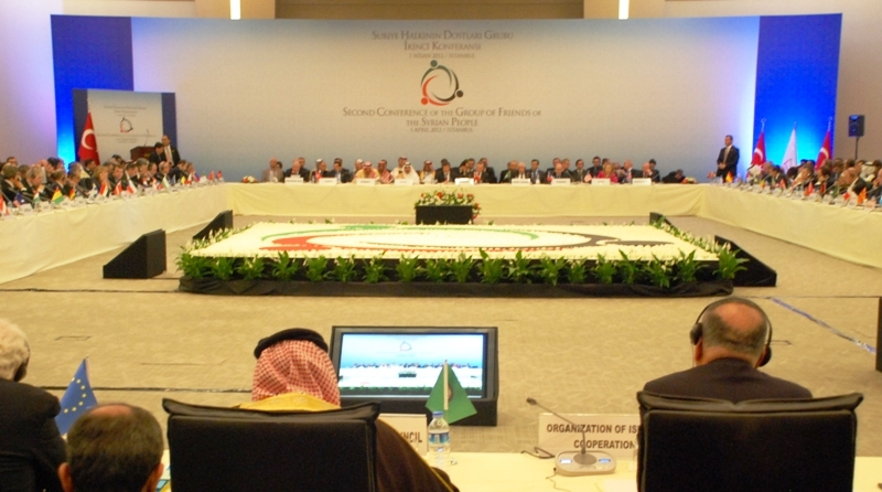 U.S. Secretary of State Hillary Rodham Clinton attends the Second Conference of the Group of Friends of the Syrian People at the Istanbul Congress Center in Istanbul, Turkey, April 1, 2012. [State Department photo/ Public Domain]